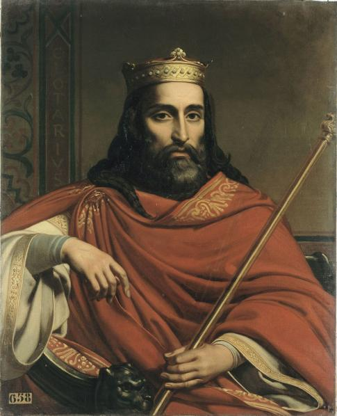 Portraits of Kings of France is a serie of portraits commissioned between 1837 and 1838 by Louis Philippe I and painted by various artists for the Musée historique de Versailles.